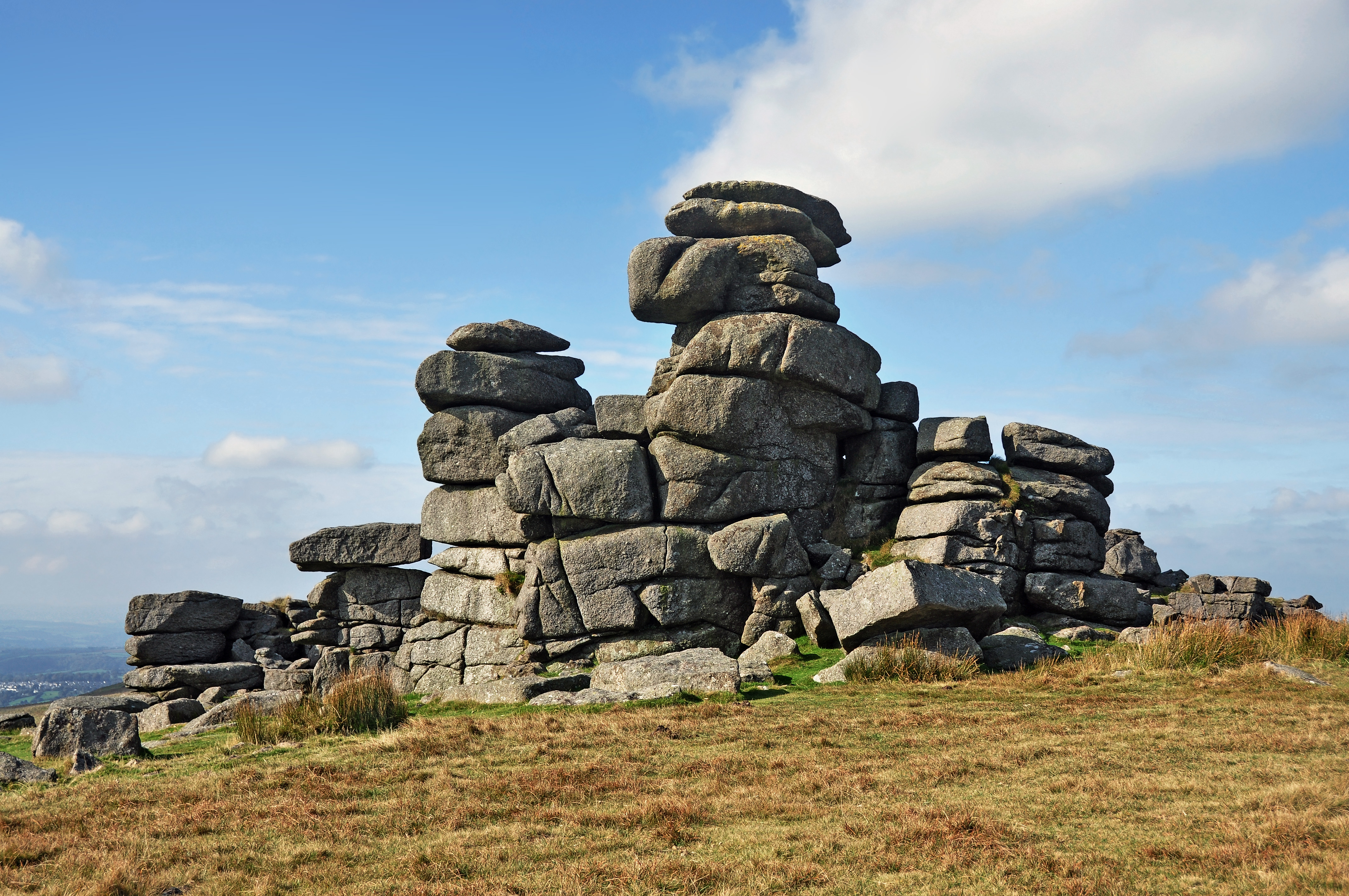 Part of Great Staple Tor on western Dartmoor. The tor consists of a number of similar outcroppings.